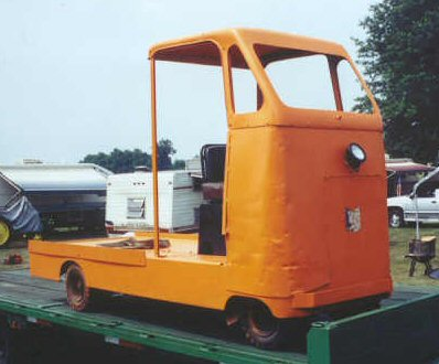 An early example of a Kalamazoo Manufacturing Company "Speed Truck", likely 1940's, seen at the South Haven, MI, USA Old Engine show in 2000.